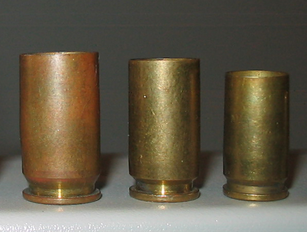 .40 S&W cartridge, surrounded on either side by the two main "competitors": .45ACP on the left, and 9mm Luger on the right.